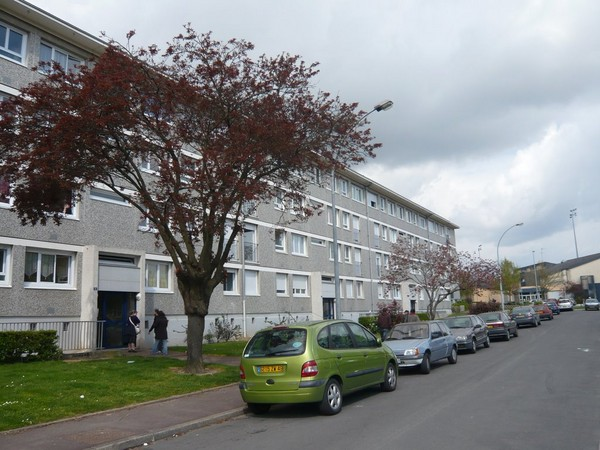 Building along Haarlem street, in the Montplaisir district in Angers, Maine-et-Loire, Pays de la Loire, France.